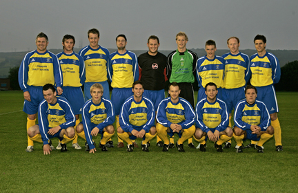 Stocksbridge Park Steels 2006–07. Back row (left to right), Collins, Crossfield, Lovell, Ward, Poulter, Siddall, Vardy, Ring, Beggs. Front row (left to right), Kennedy, Broadbent, Richards, Ludlam, Walker, Powell. Jamie Vardy with Stocksbridge Park Steels in 2007 (back row, third from right).